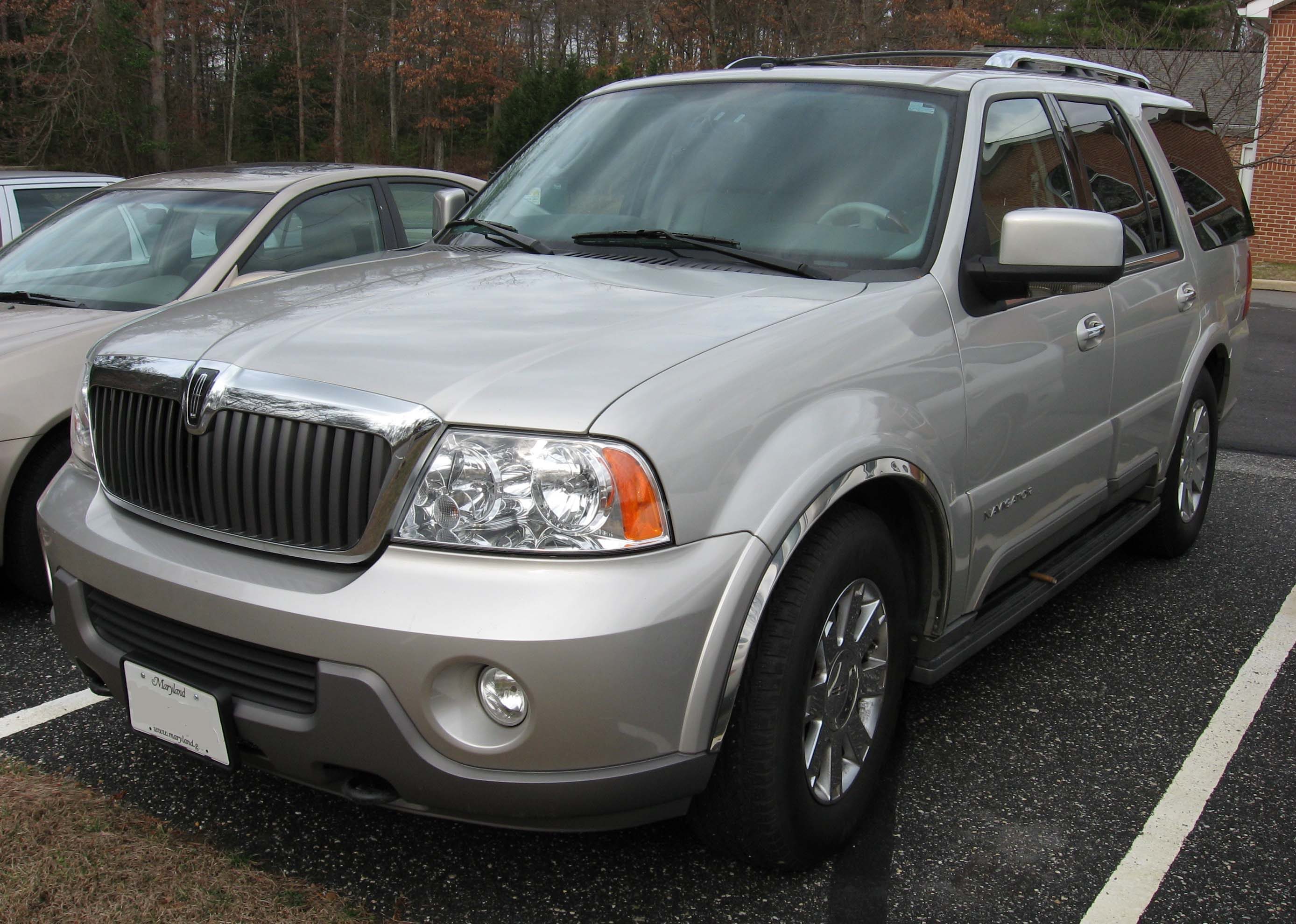 2003-2006 Lincoln Navigator photographed in USA.